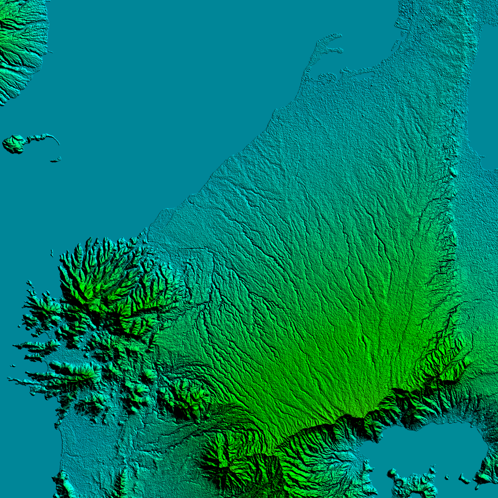 Cavite Relief Map on 1 arc second/30-meter resolution from SRTM released September 23, 2014 Rectangular Projection based on coordinates W= 120° 33' 34.3339" E N= 4° 32' 5.0491" N E= 121° 05' 0.3938" E S= 14° 00' 38.9891" N AREA=3295.7 sq km